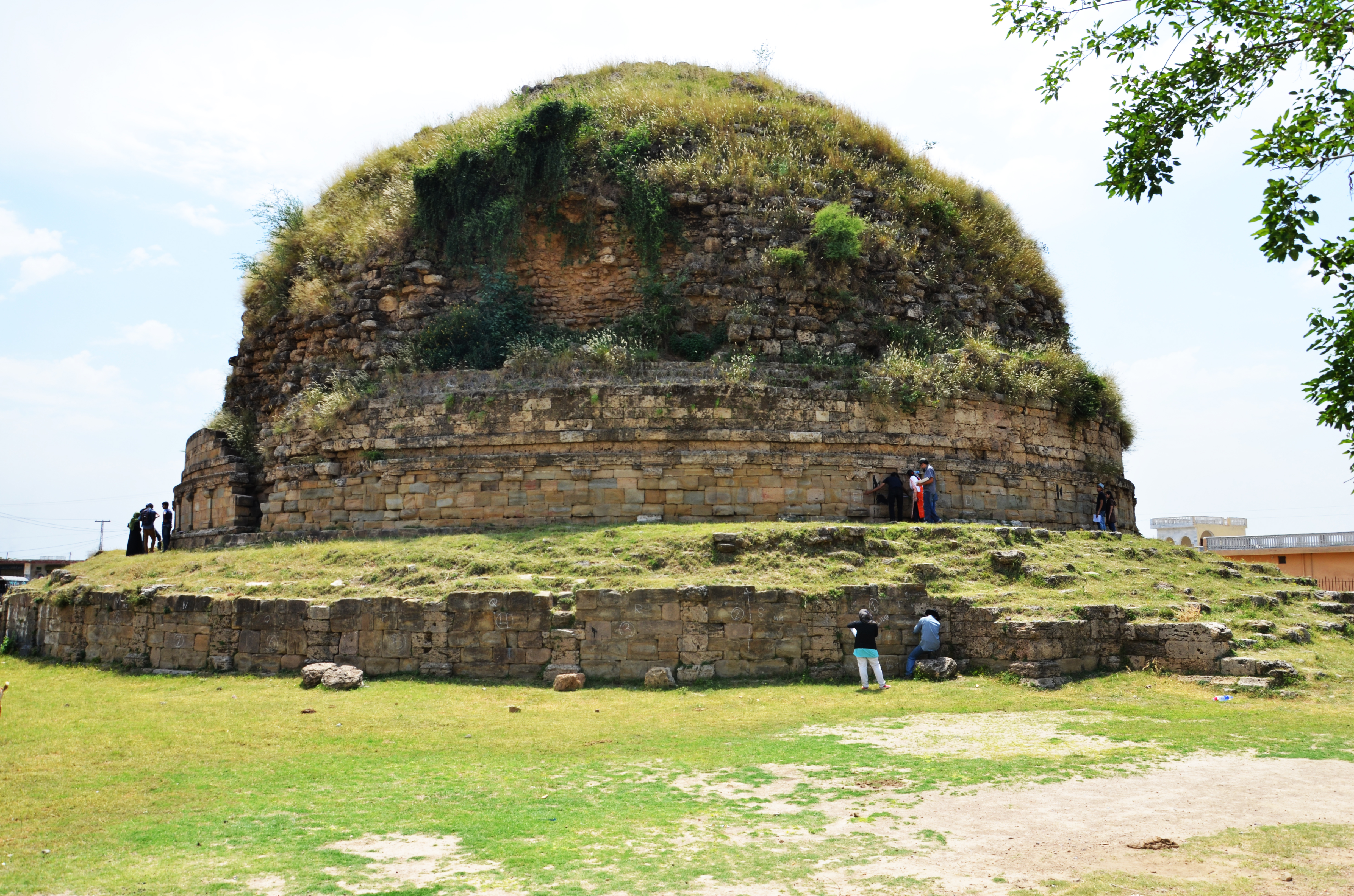 Tope or stupa (Buddhist) This is a photo of a monument in Pakistan identified as the PB-115